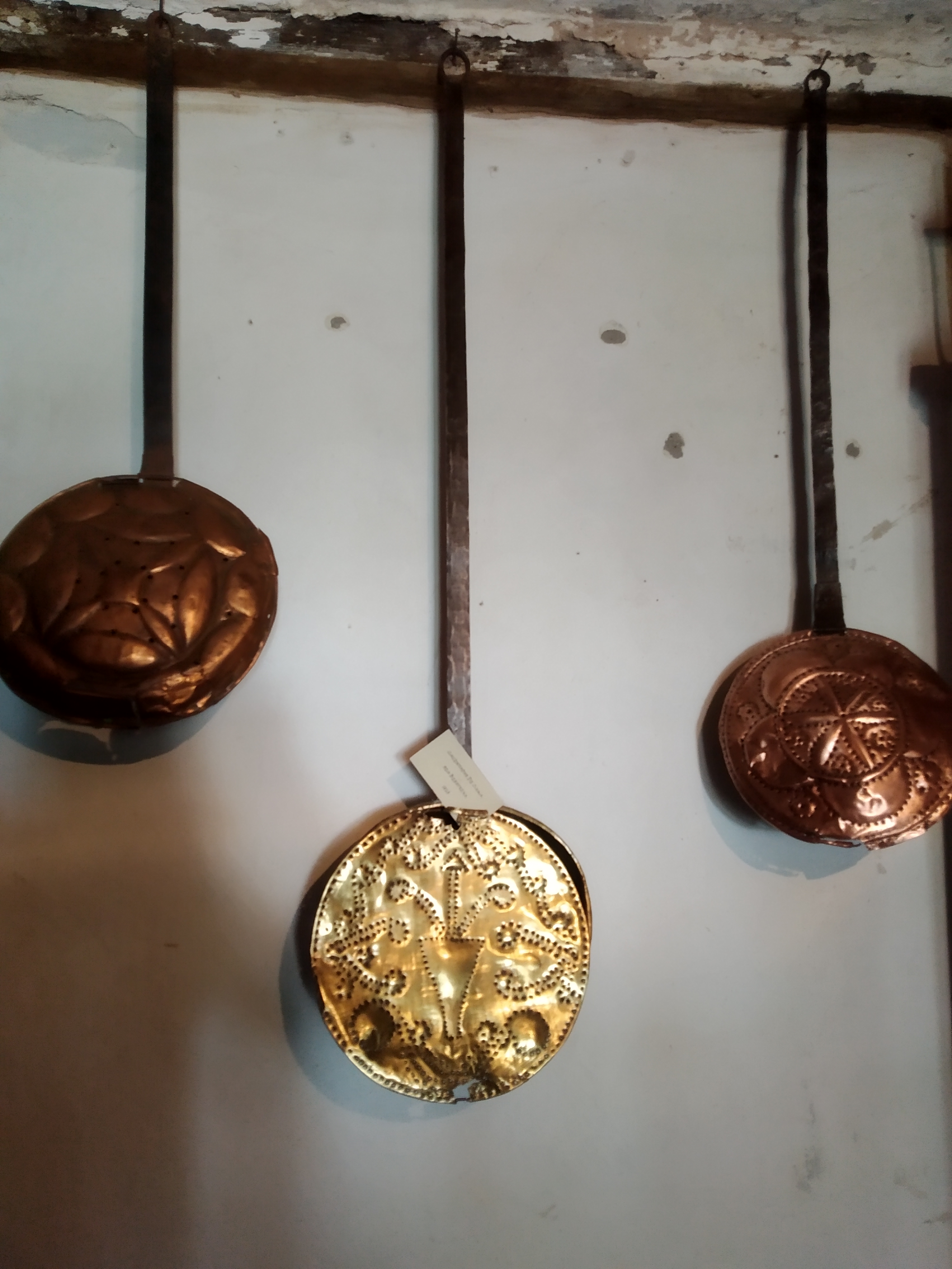 Metal bed warmers at the Ethnographic Museum of the Kingdom of Navarre